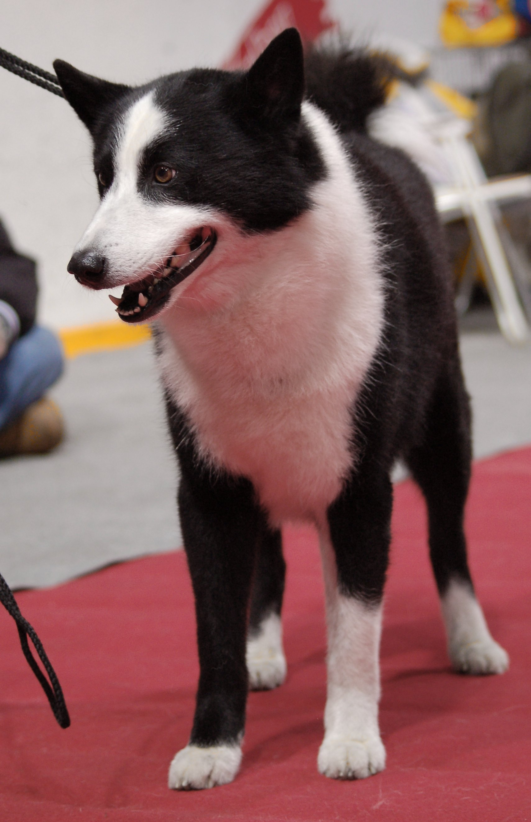 Karelian bear dog during dogs show in Katowice, Poland